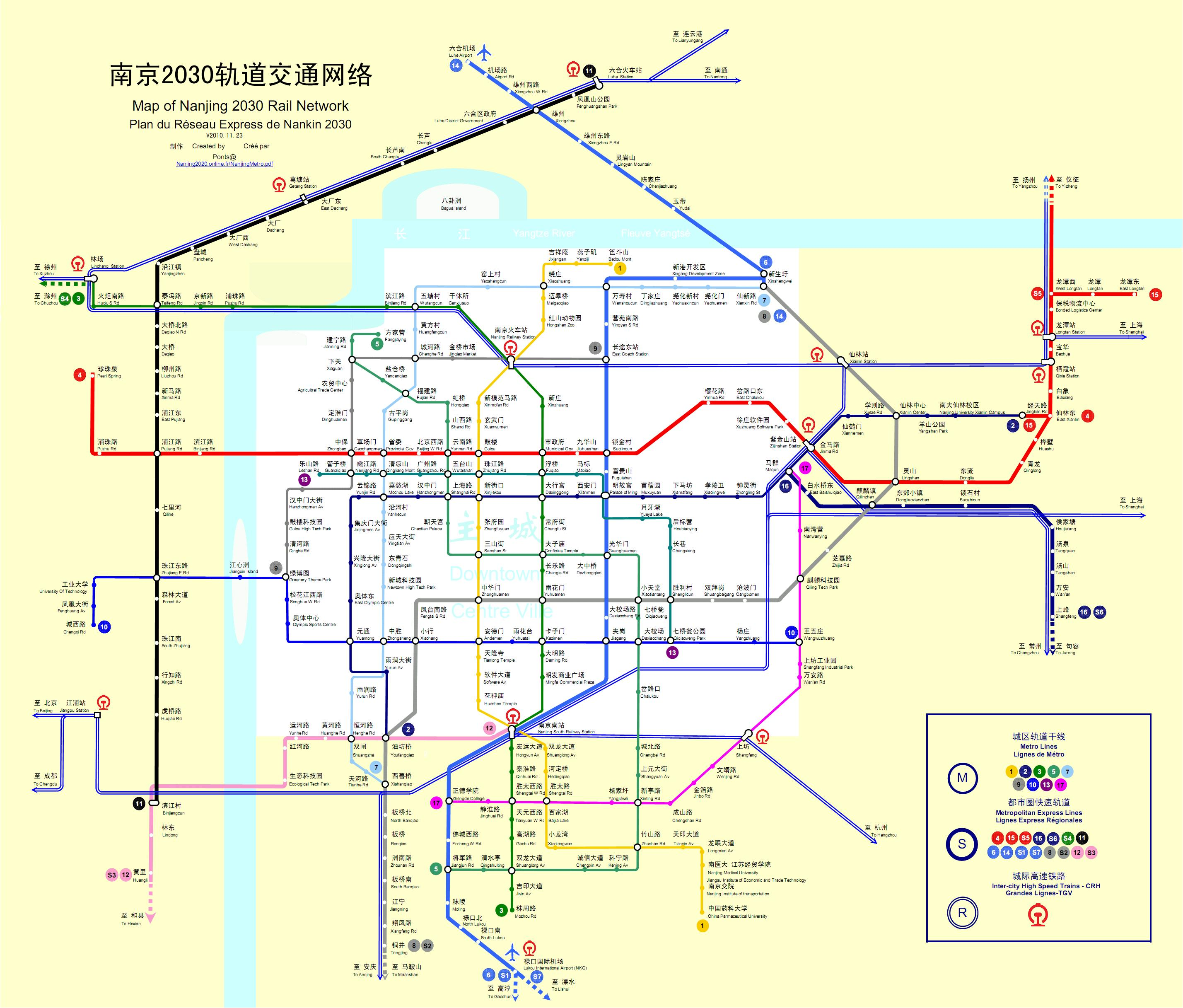 Nanjing Metro Network 2030